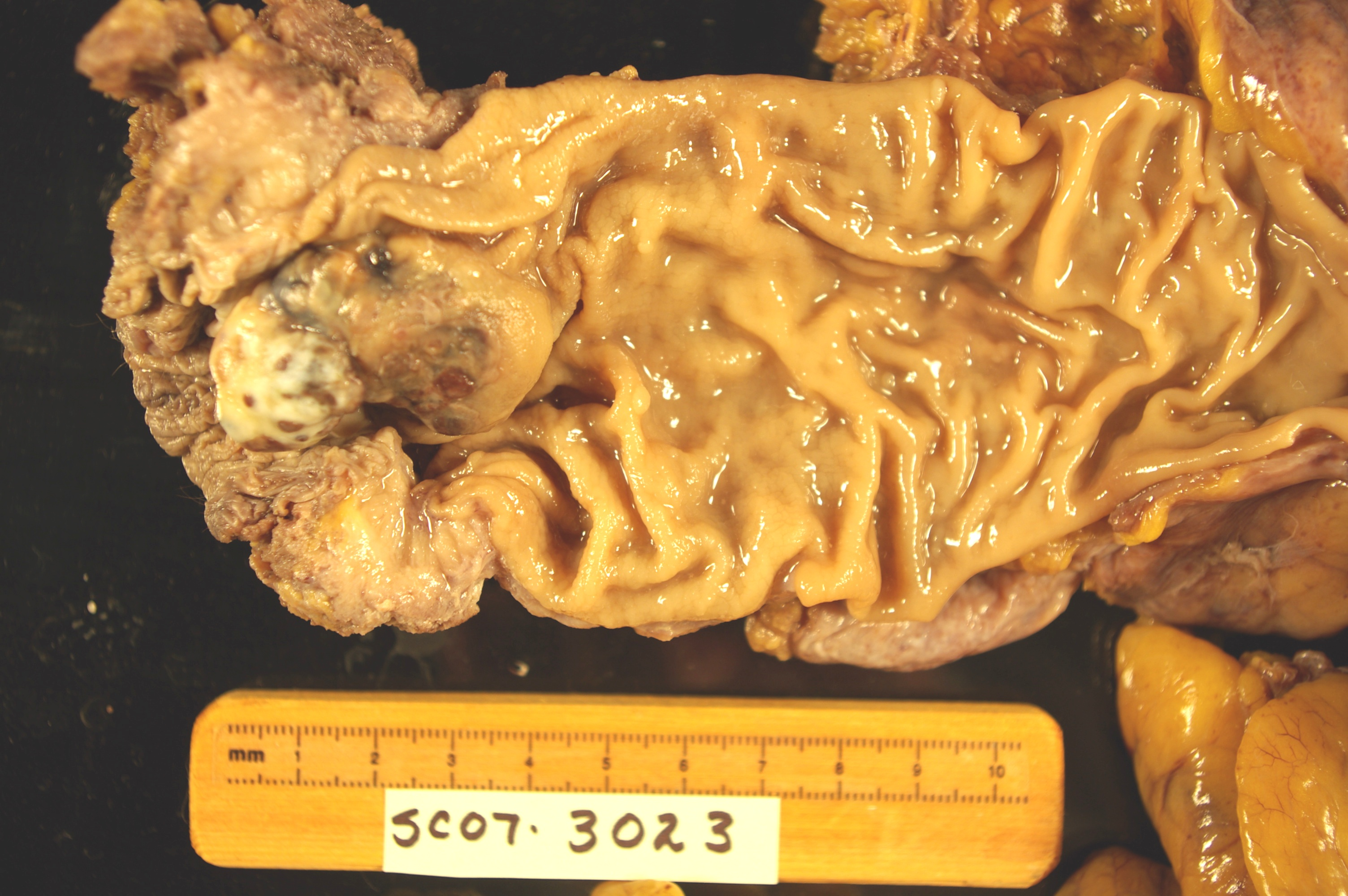 An anal melanoma (Dr. Robertson)